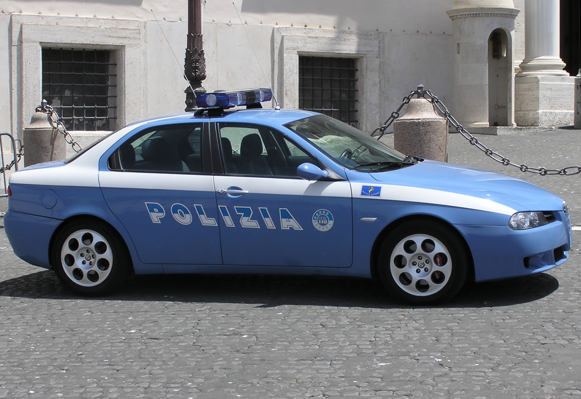 State Police (Polizia di Stato) car in front of the main door (portone) of the Quirinale Palace (Presidential Palace) in Rome, Italy.